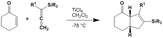 Representative reaction scheme for the Danheiser Annulation reaction.